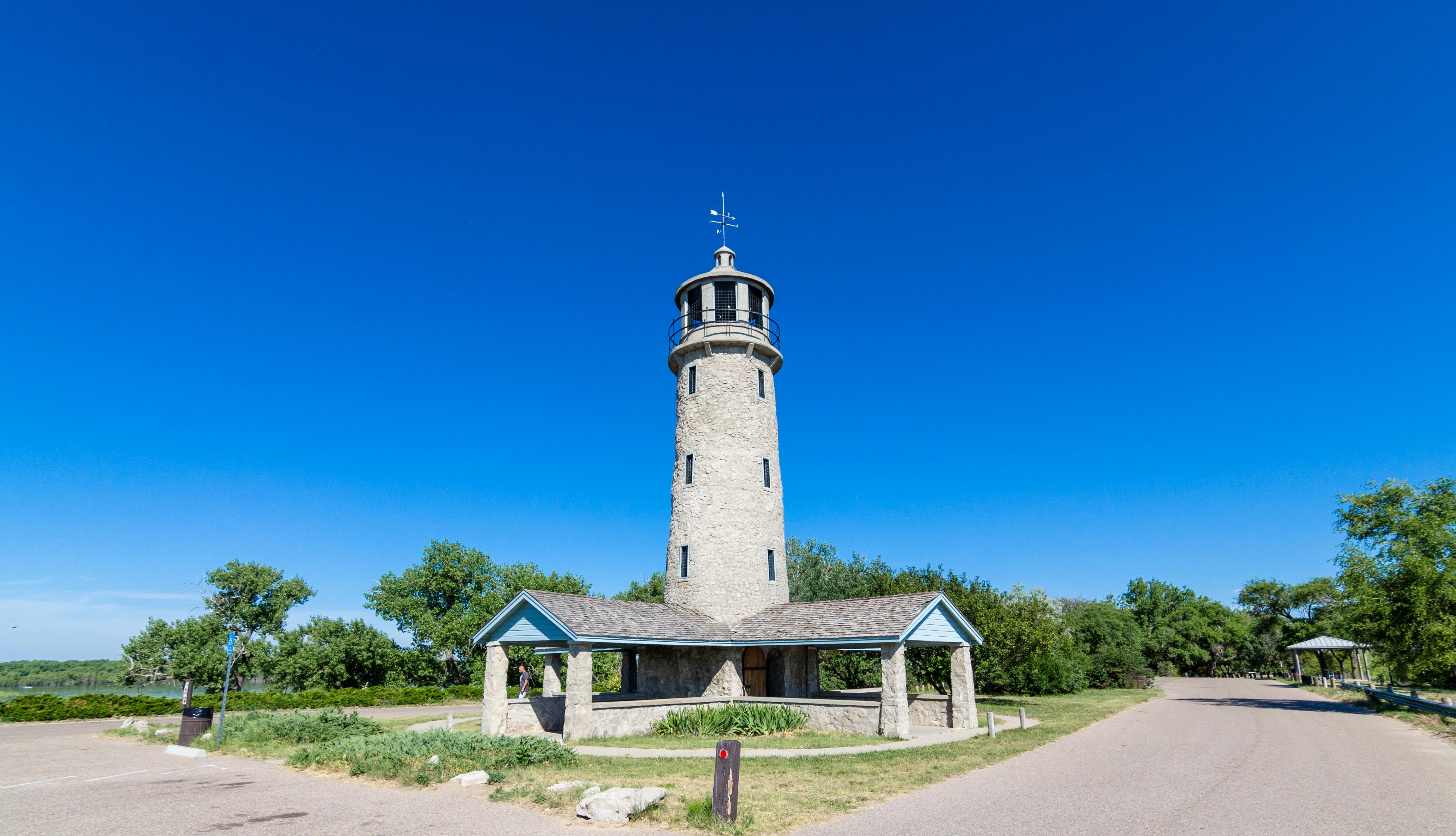 Lighthouse on Lake Minatare